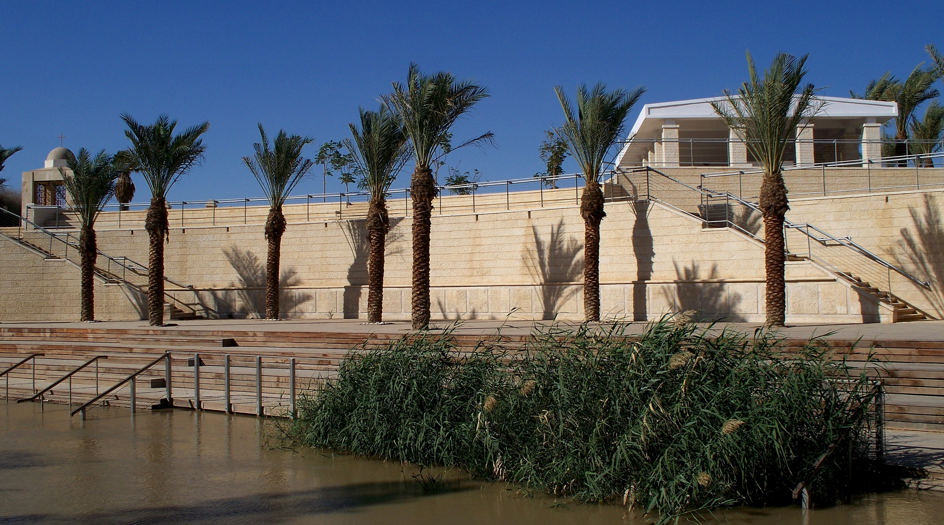 The Palestinian Baptism site structure at Jordan River.